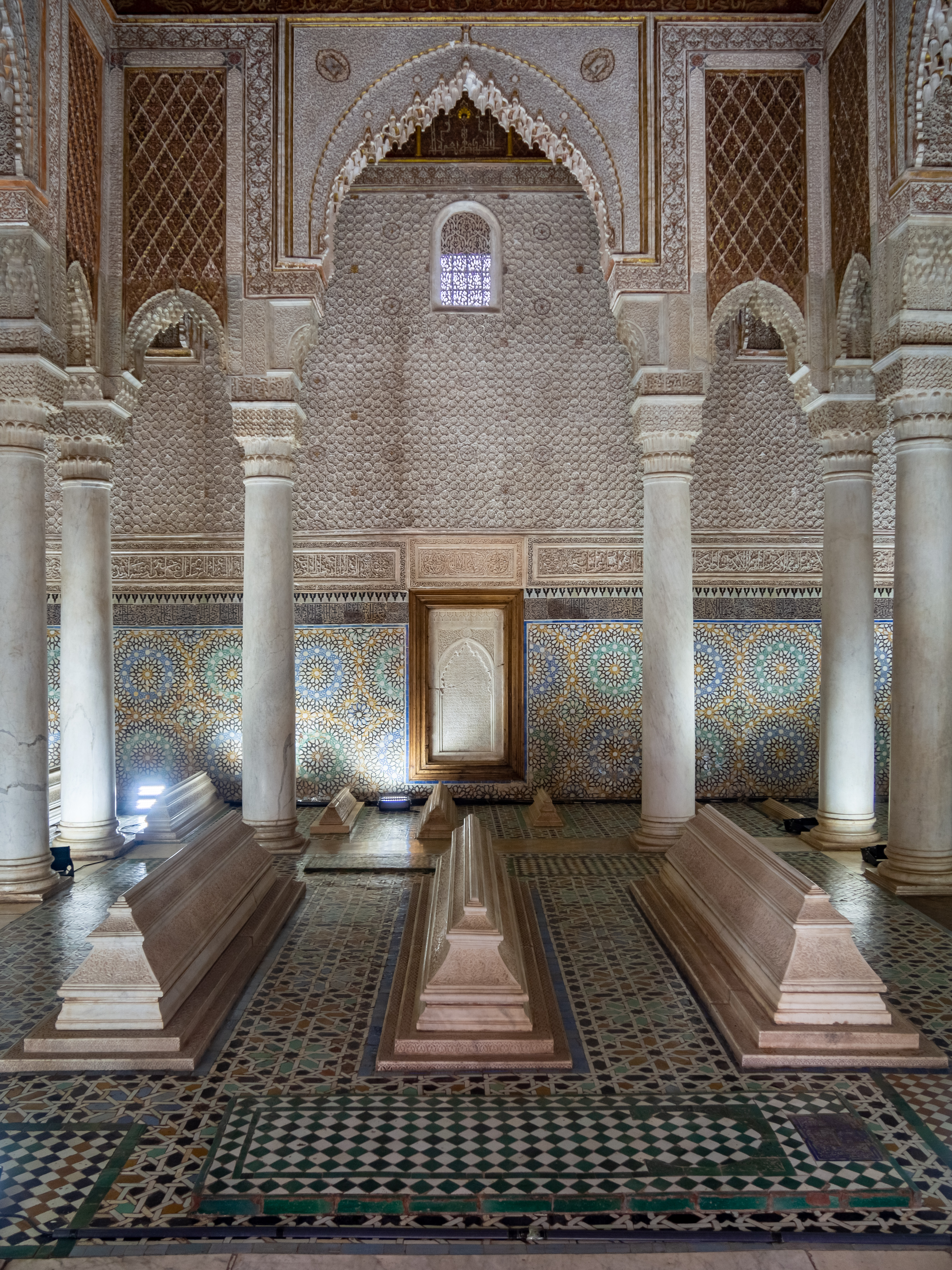 Saadian Tombs - the main room